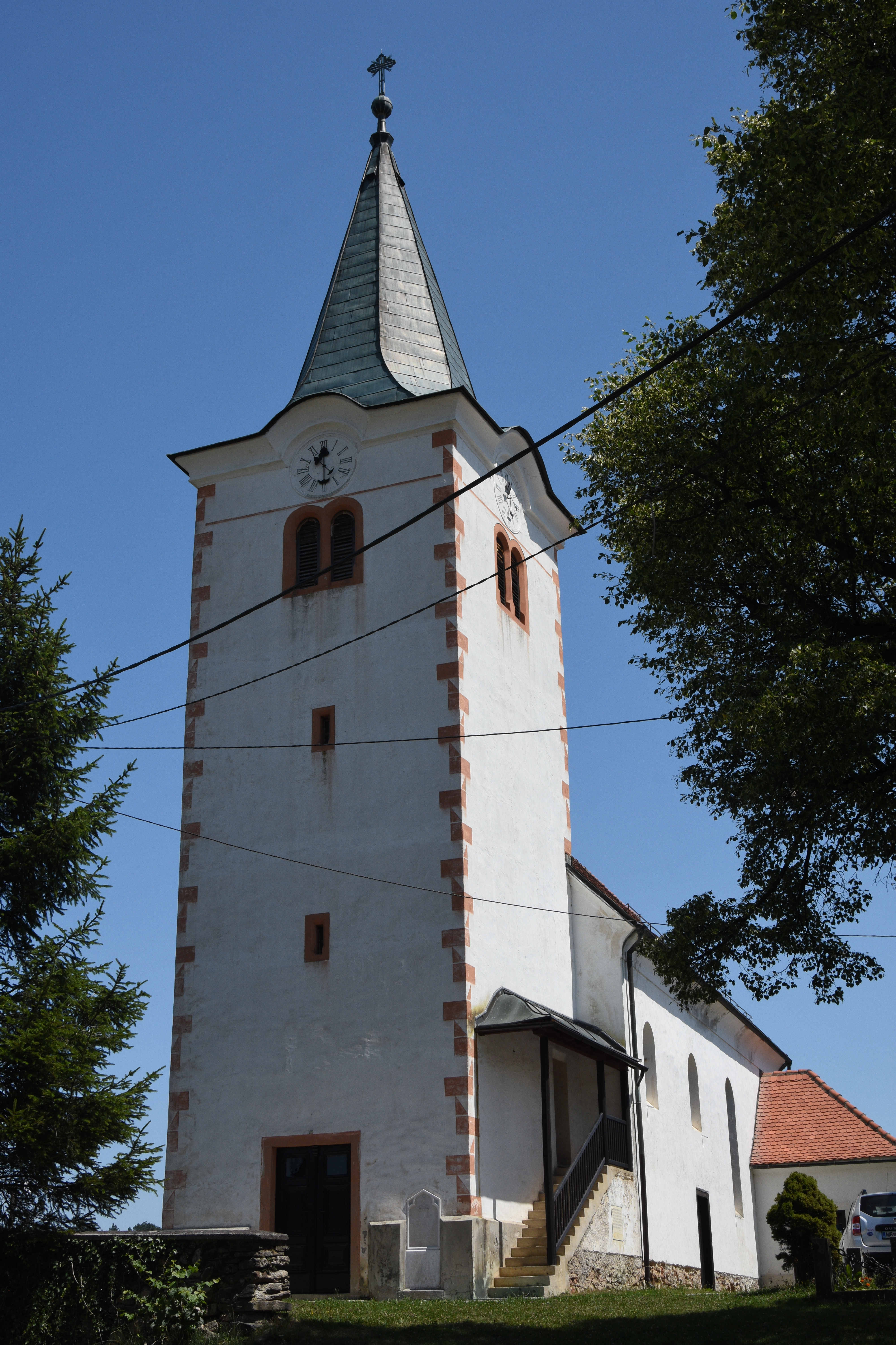 Church Mariborom